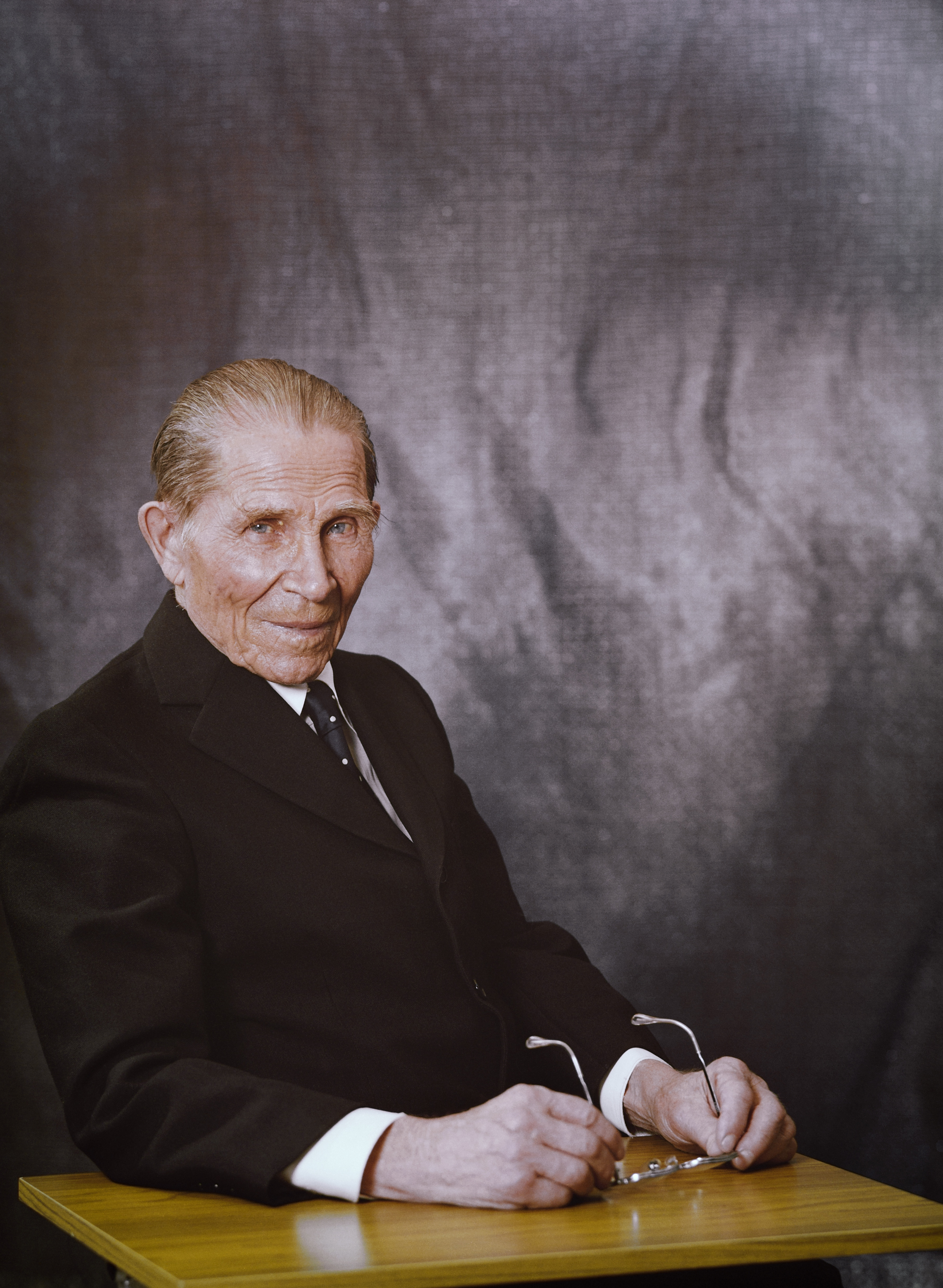 Photograph of the Finnish physician Arvo Ylppö (1887–1992).